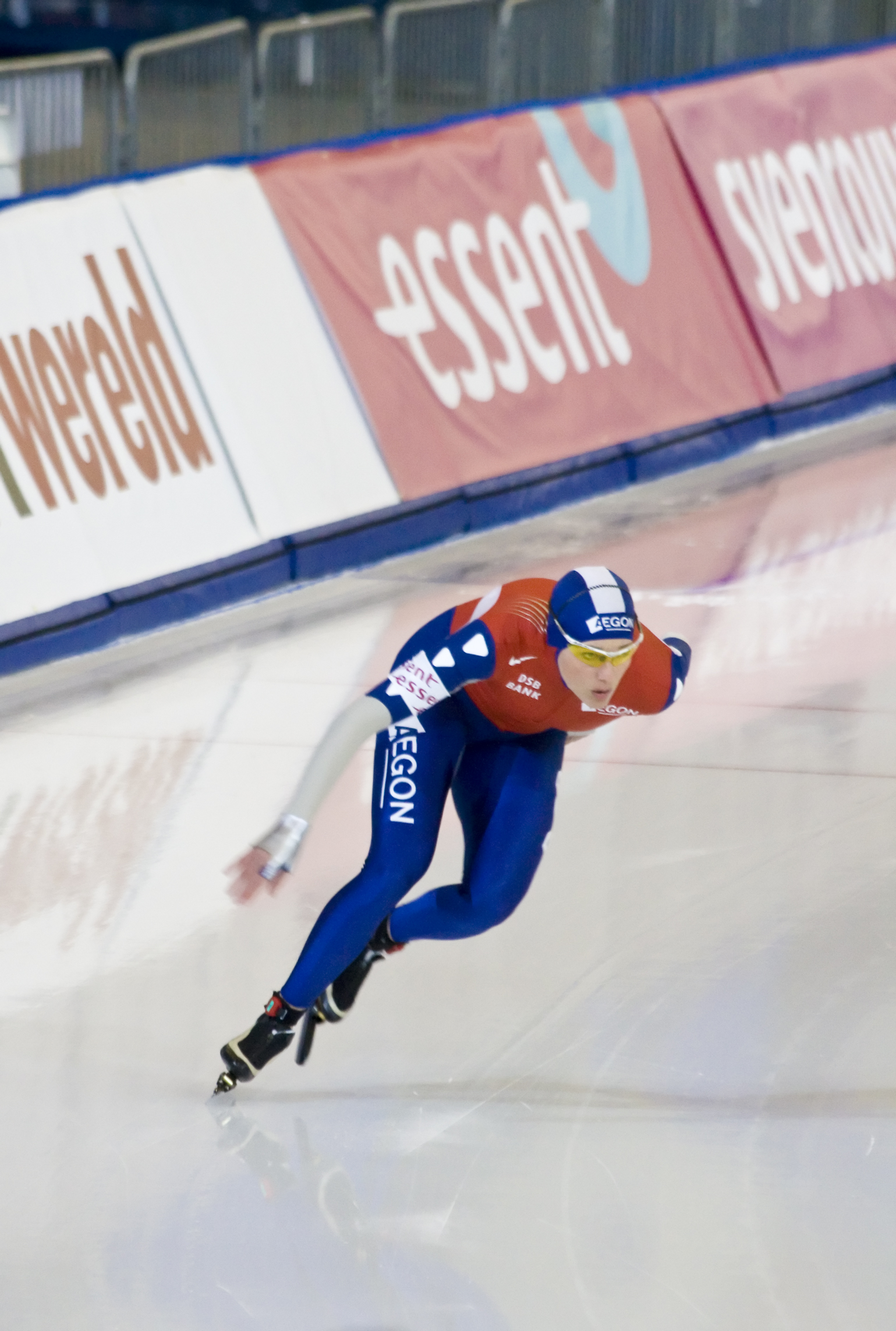 Team Netherlands